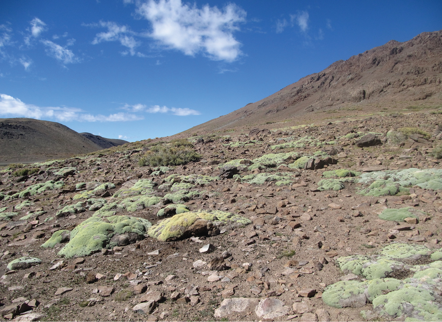 View of the type locality of Liolaemus uniformis sp. n., a high Andean environment.